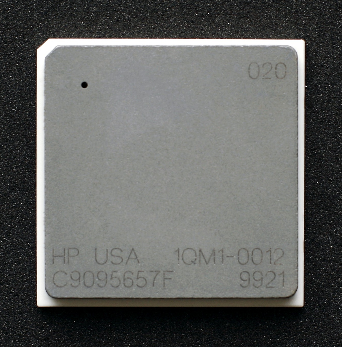 CPU Hewlett-Packard PA-8500